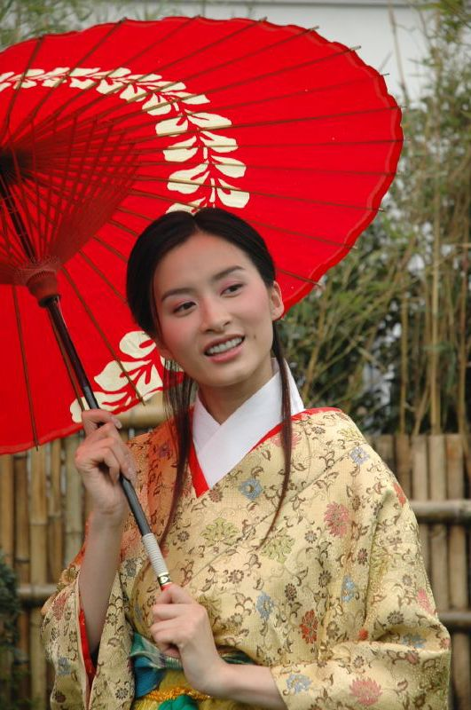 TVB actress and television presenter Jessie Sum at the 2005 Hong Kong flower show.